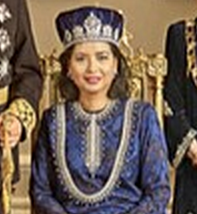 Johor Royal Family 2015